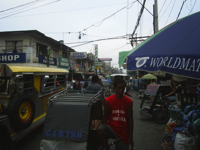 Busy street lined with shops and vendors in Tondo, Manila